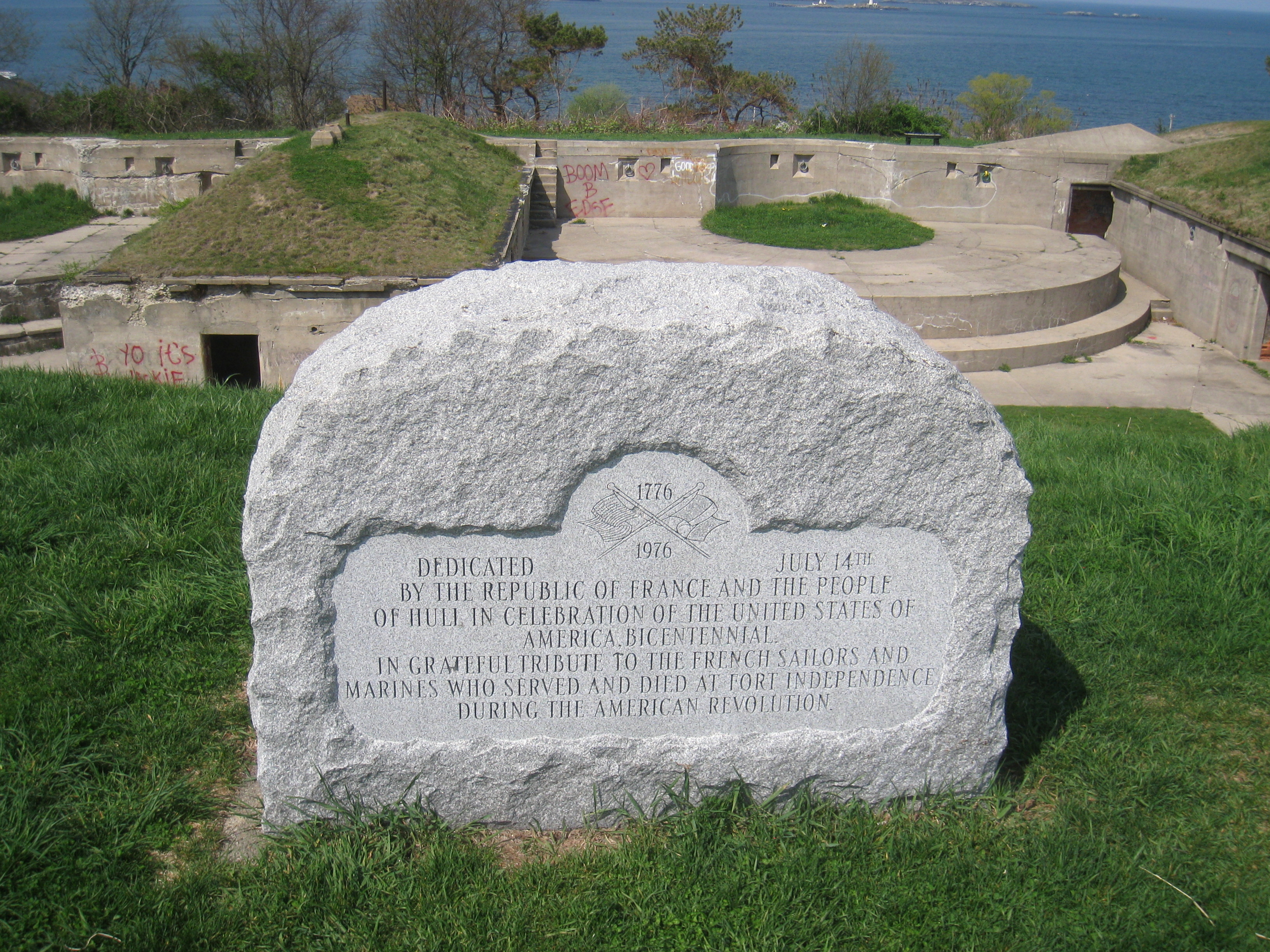 Monument, Fort Revere Park, Hull, Massachusetts, USA.